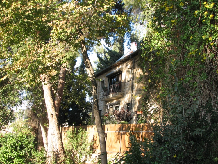 House in old section of Beit HaKerem.